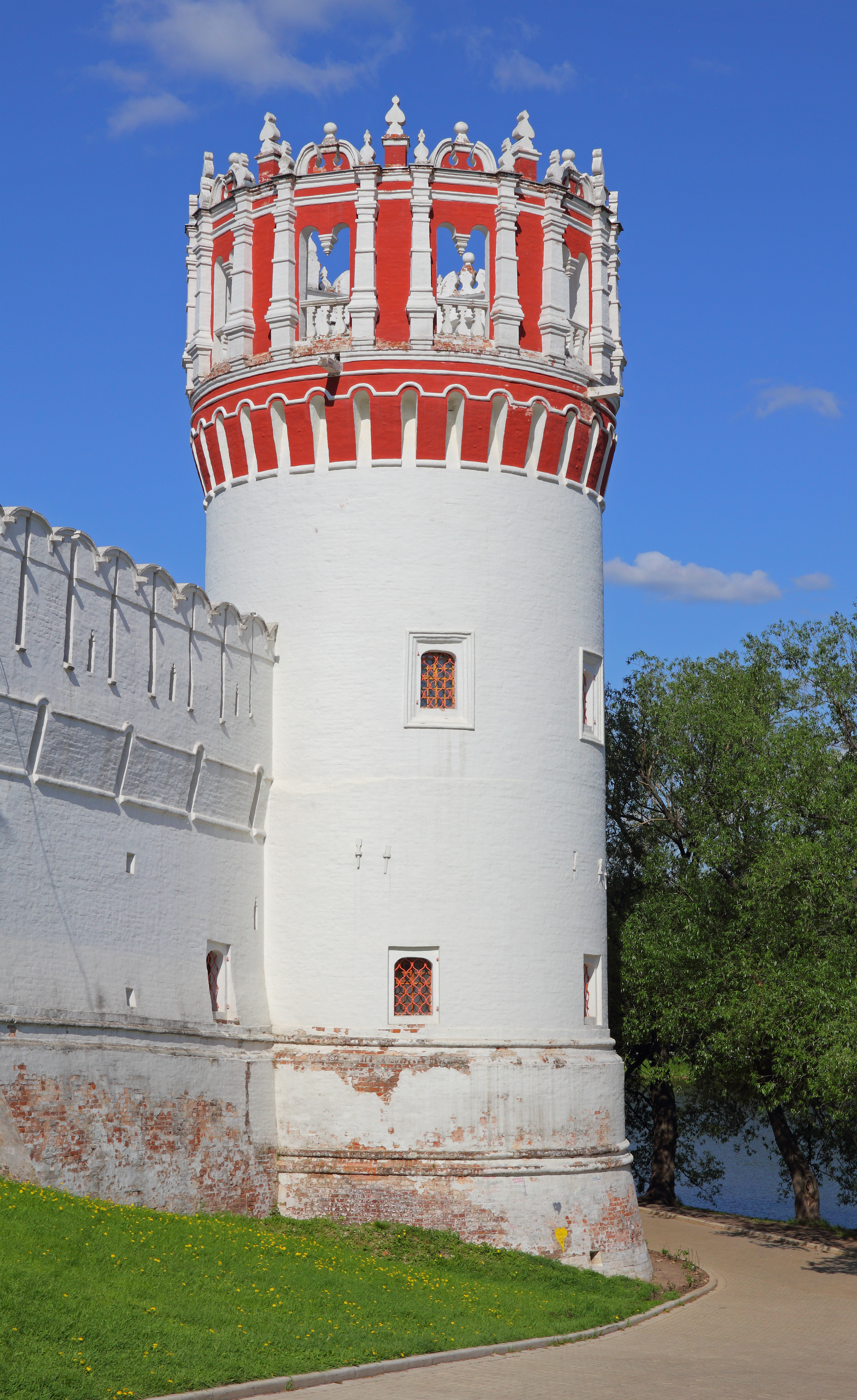 Moscow, Russia. Novodevichy Convent. Naprudnaya Tower.